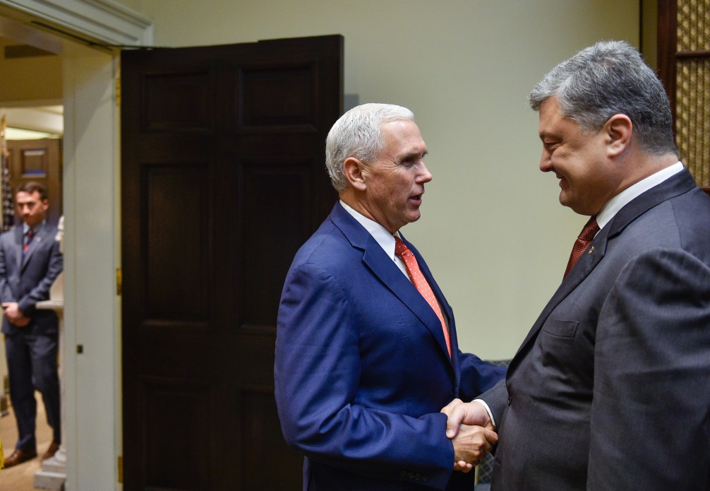 Working visit to the United States of America